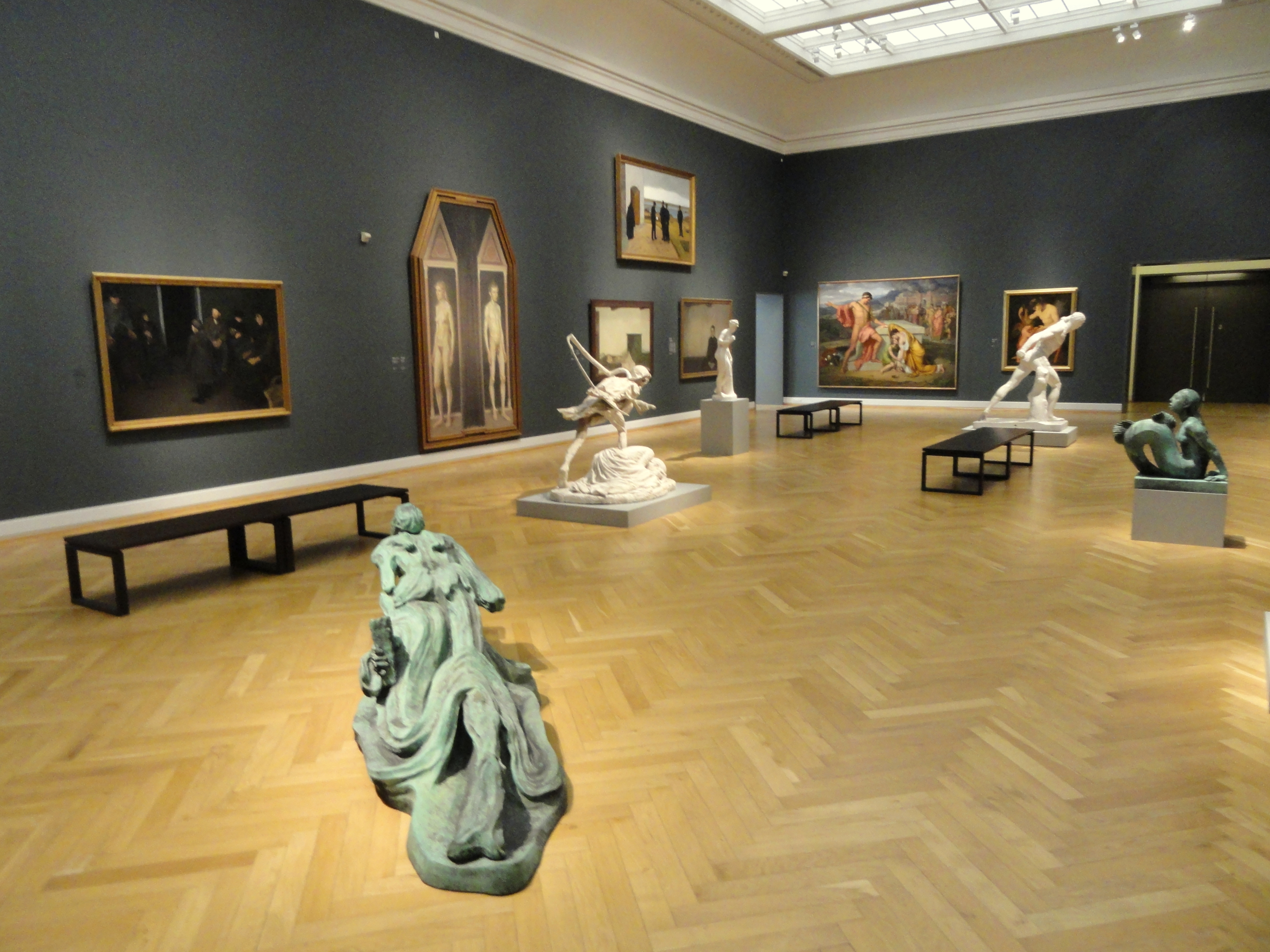 Statens Museum for Kunst, Copenhagen, Denmark. Photography was permitted without restriction of all artworks old enough to be in the public domain. This artwork is in the public domain because its creator died more than 70 years ago.